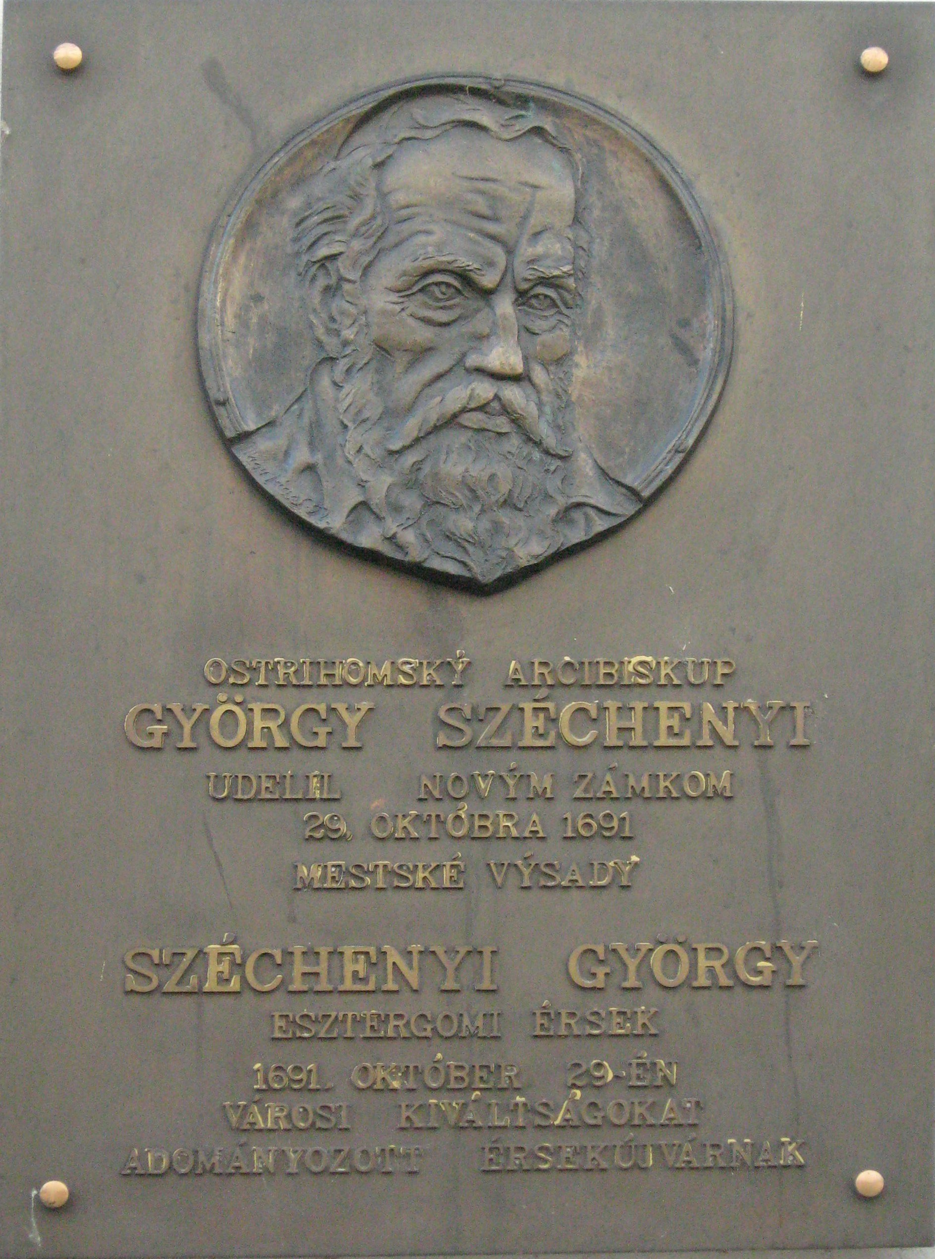 Memorial plaque of George Széchényi archbishop of Esztergom on the wall of cloister in Nové Zámky